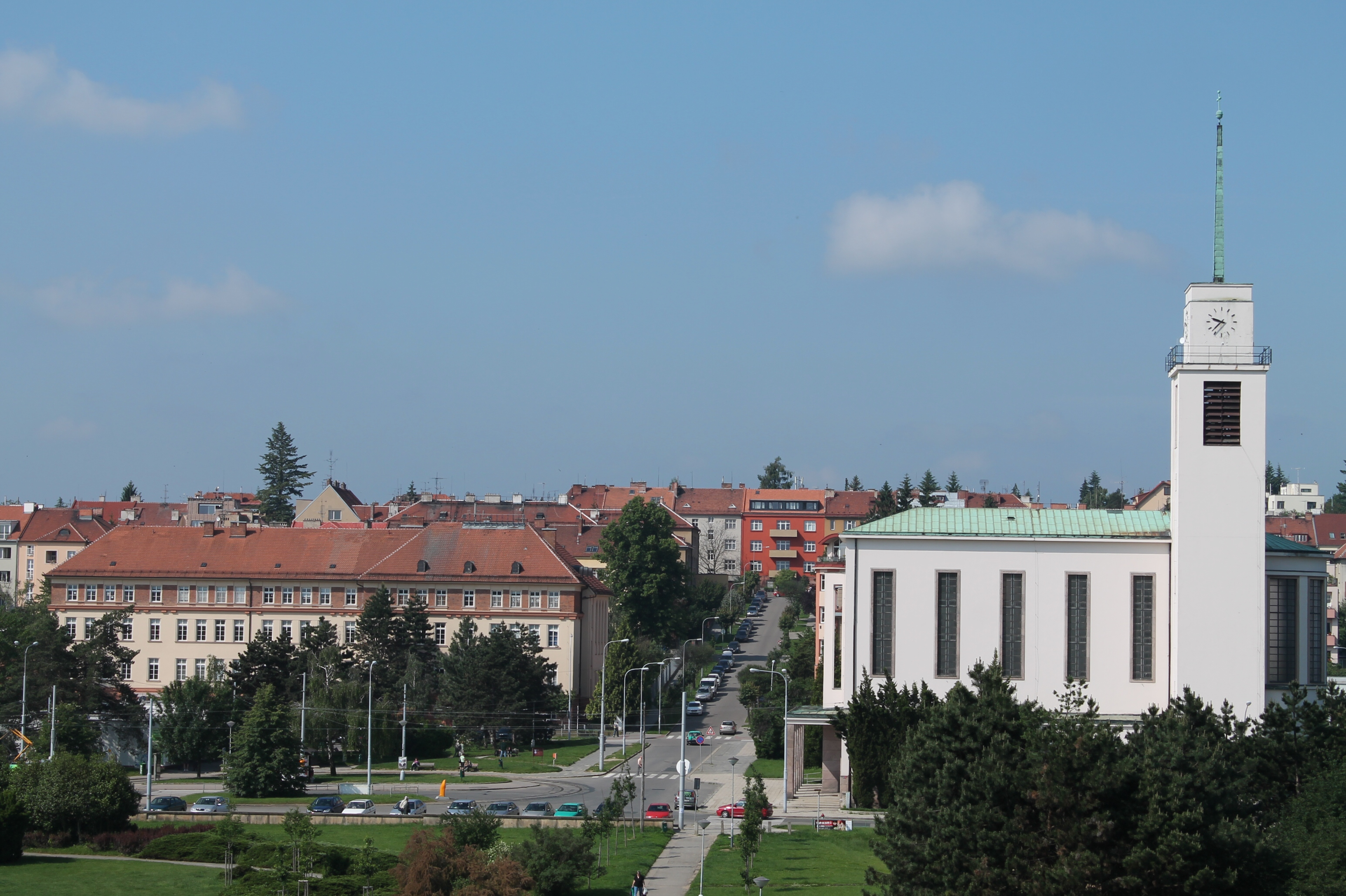 Náměstí Míru, Brno, Czech Republic - Google Maps - Google Earth